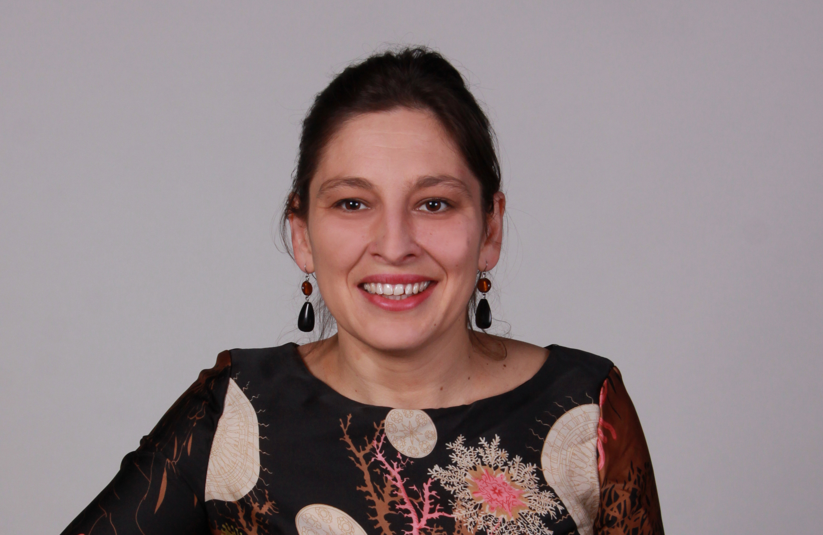 Livia Jaroka, Member of the European Parliament